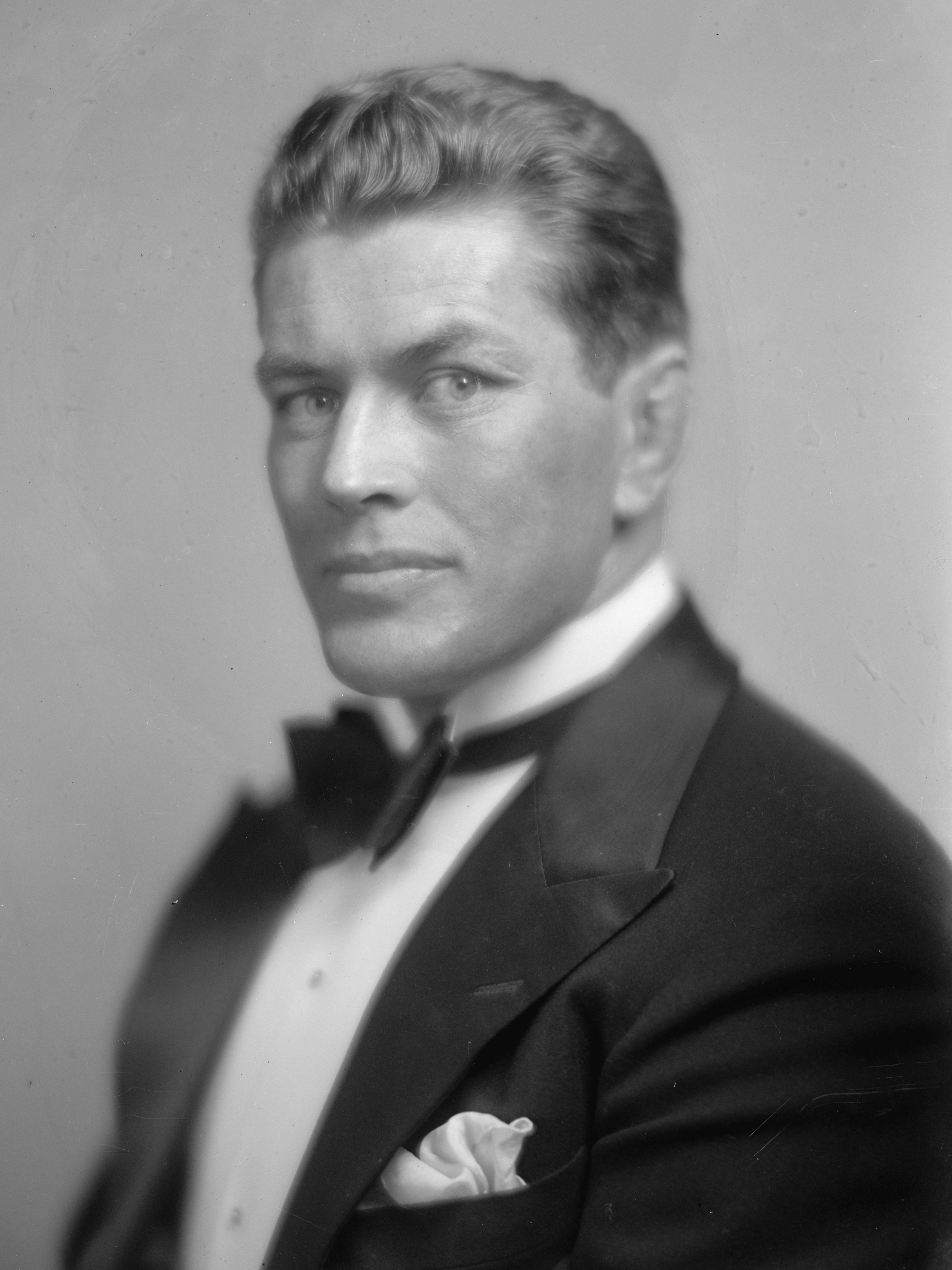 Portrait of boxer Gene Tunney